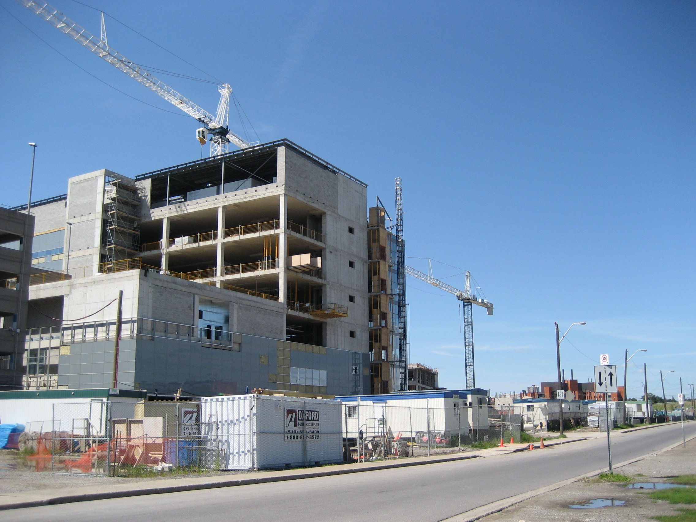 David Braley Cardiac, Vascular and Stroke Research Institute, (Under construction), Victoria Avenue North, Hamilton, Canada.